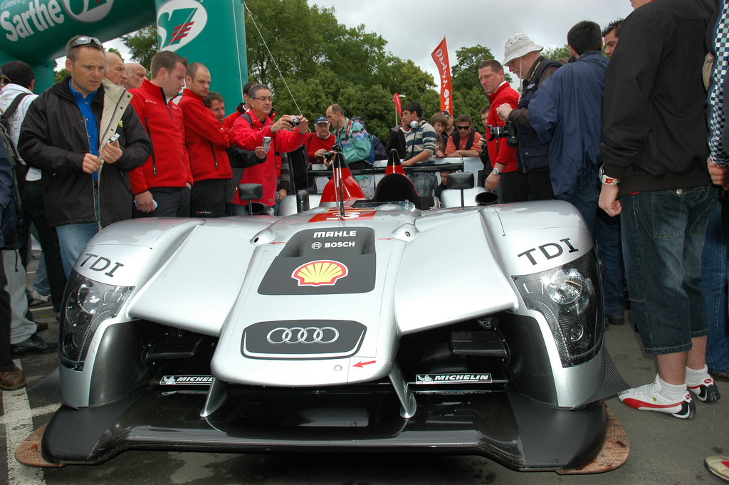 Audi Sport Team Joest's Audi R15 TDI at scrutineering for the 2009 24 Hours of Le Mans.